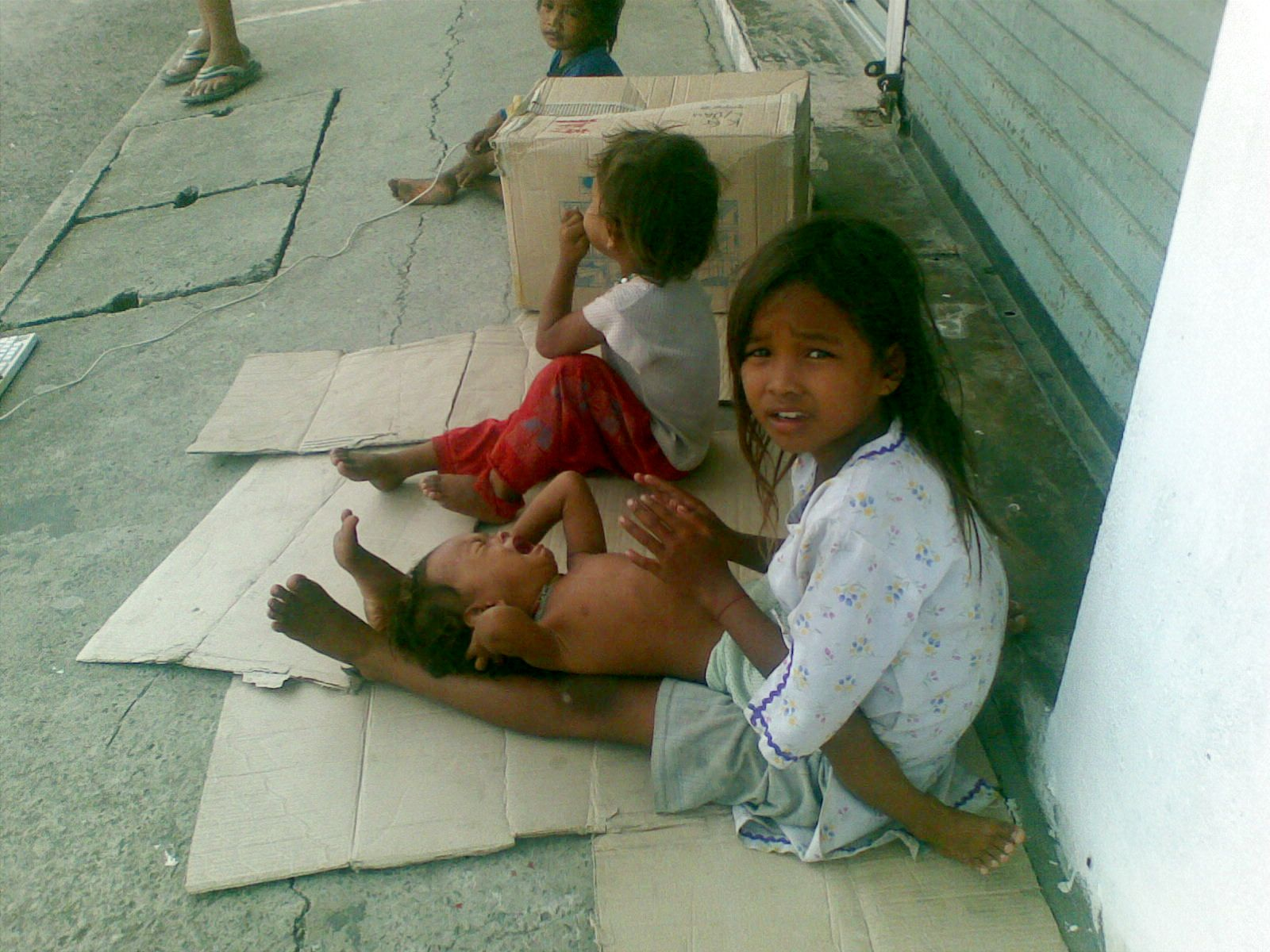 Street Life Lahad Datu